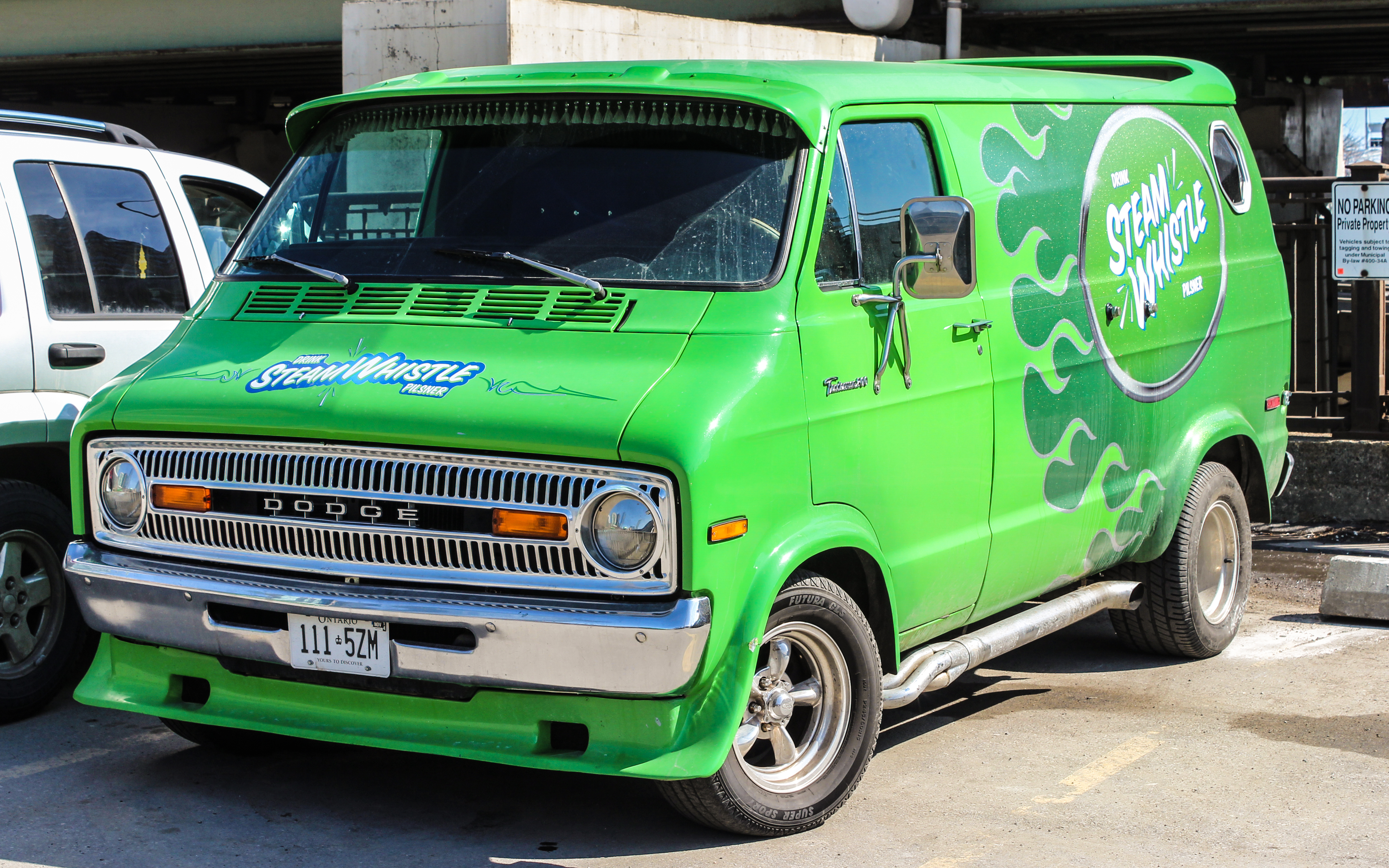 Steam Whistle Steam Weaver Dodge Tradesman